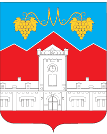 Coat of Arms of Masandra